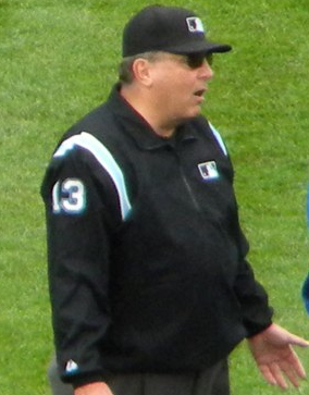 MLB umpire Derryl Cousins - July 8, 2009.